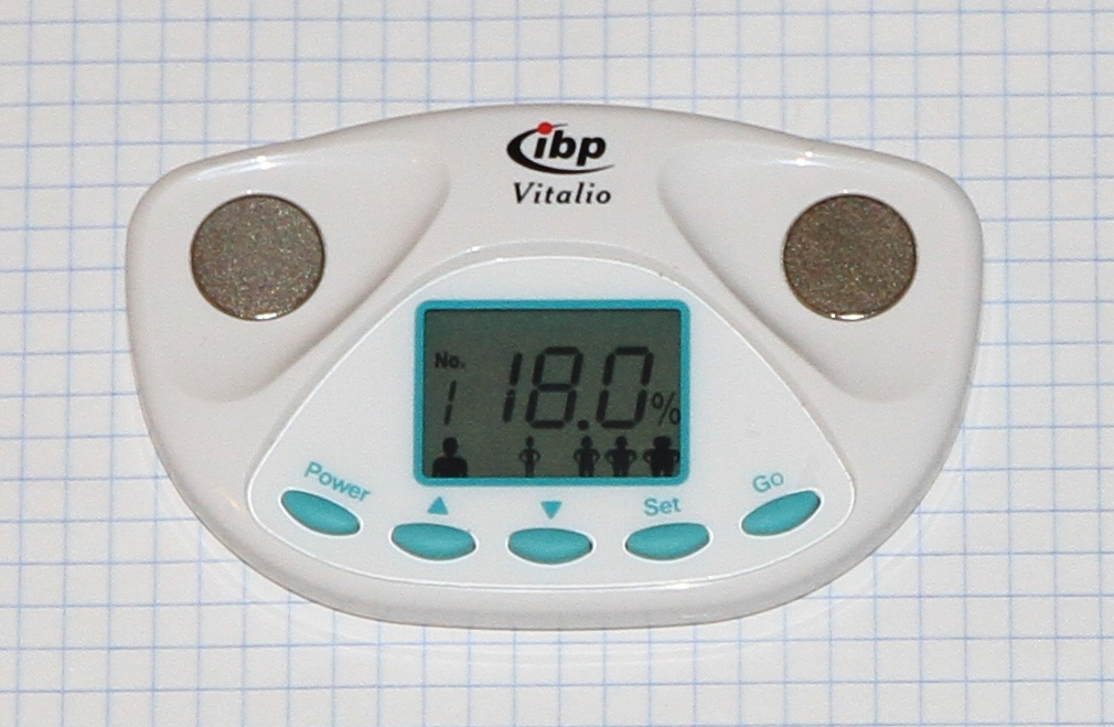 IBP BF 101. Small body fat monitor for the upper body. 2 measuring points